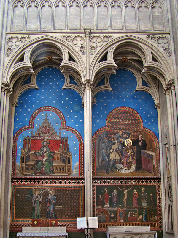 Bayeux Cathedral, Calvados, Normandie, France. Chapels in south arm of transept. Left: Trinity at top, Annunciation below. Right: saint Thomas Beckett's martyr at top, scenes from the life of saint Nicolas below.